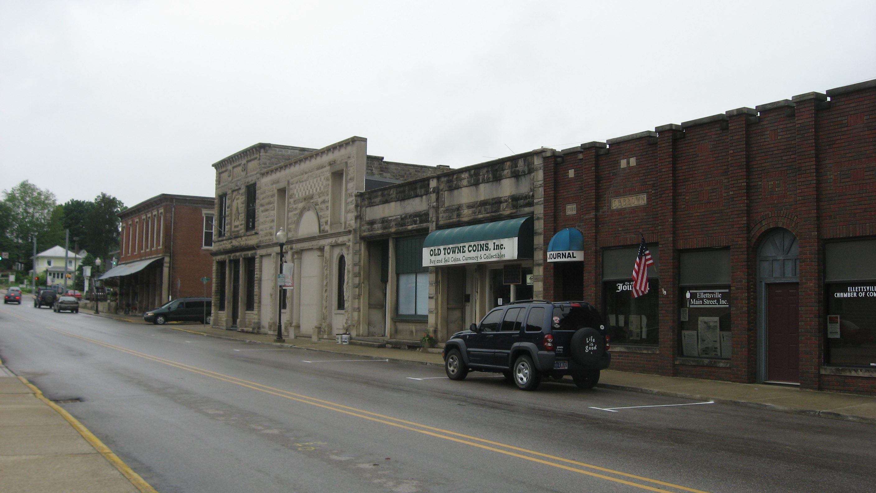 Buildings on the western side of the 200 block of N. Sale Street in downtown Ellettsville, Indiana, United States. These buildings compose part of the Ellettsville Downtown Historic District, a historic district that is listed on the National Register of Historic Places.